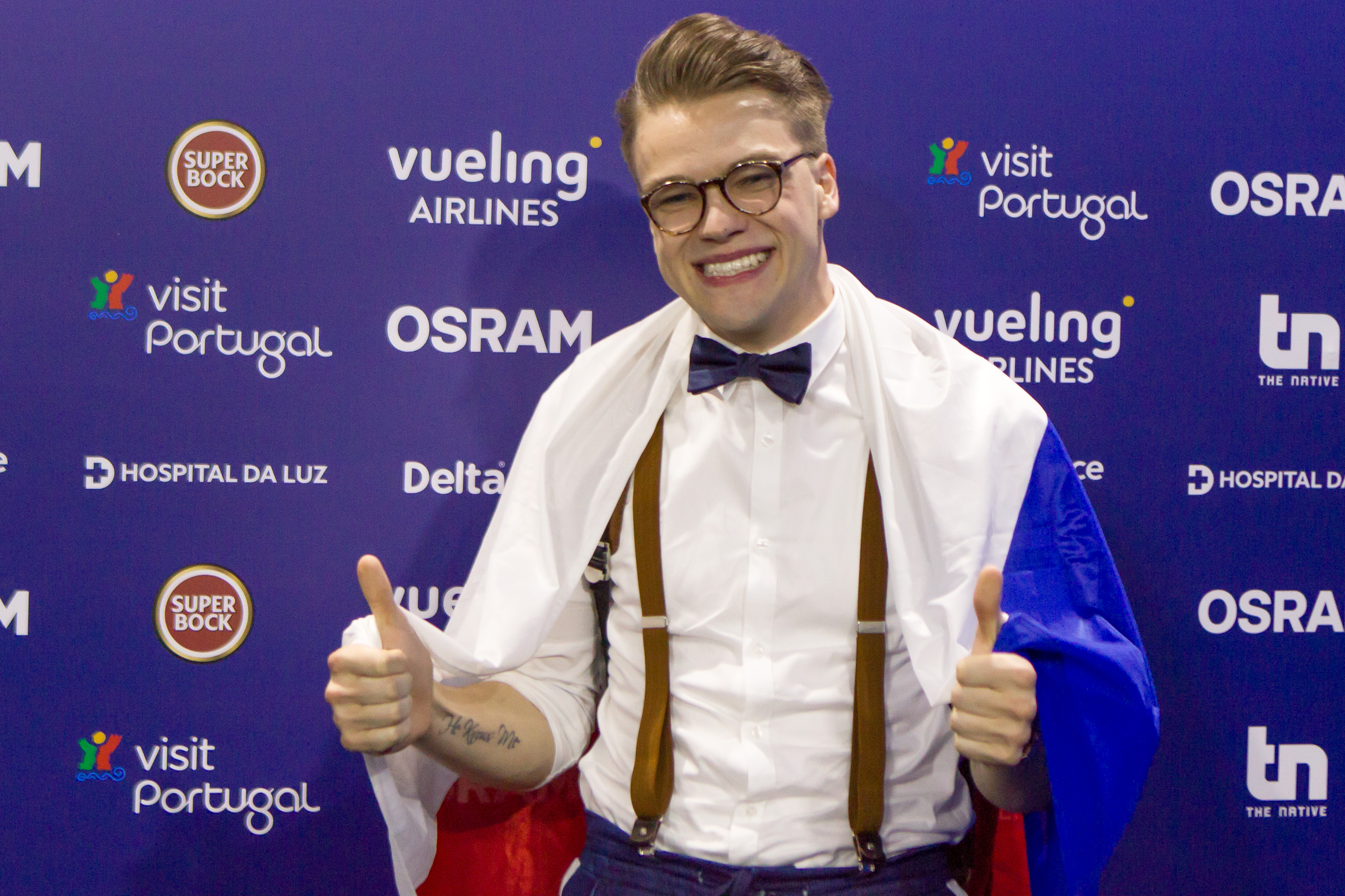 Press conference after the first Semi-Final of the 2018 Eurovision Song Contest